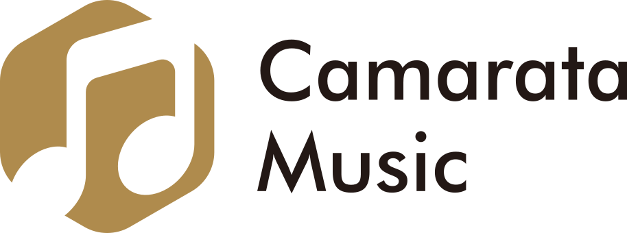 Camarata new logo, 2019